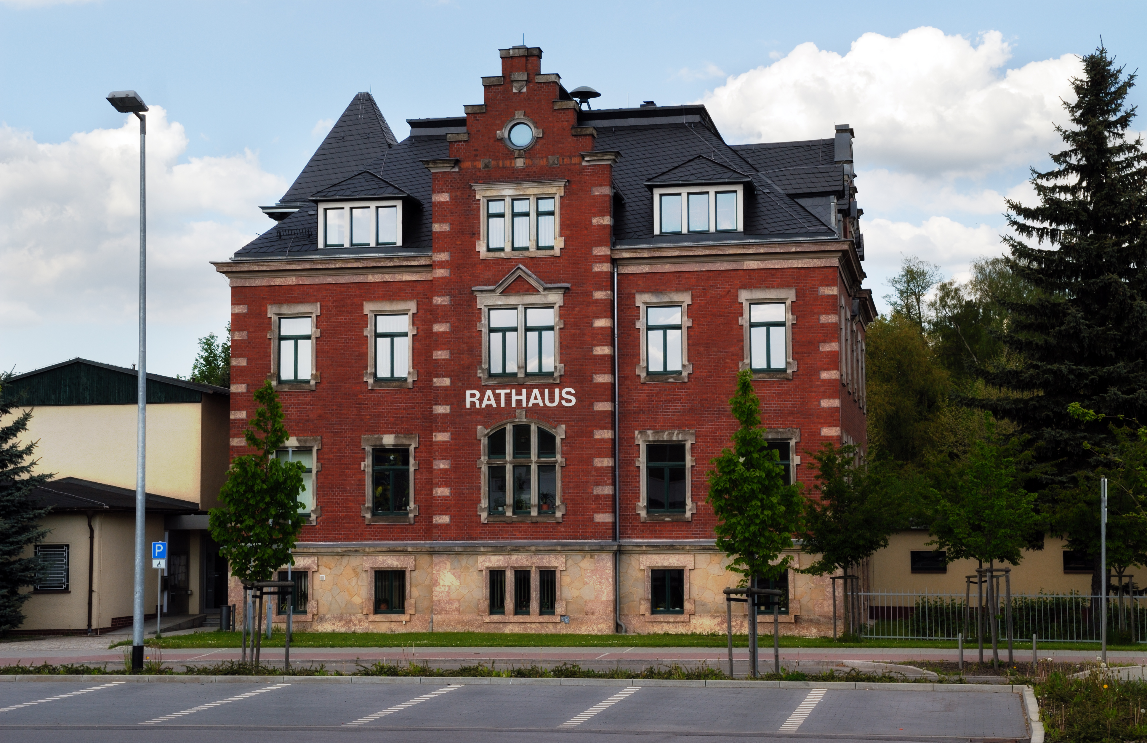 This image shows the town hall in Flöha, Germany.